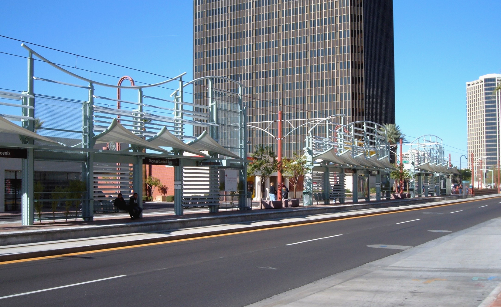 Photograph of the Midtown Phoenix (or Central at Thomas) Station of METRO Light Rail that serves the Phoenix area, Arizona, USA. This photograph was taken during the light rail's grand opening celebration on December 28, 2008.